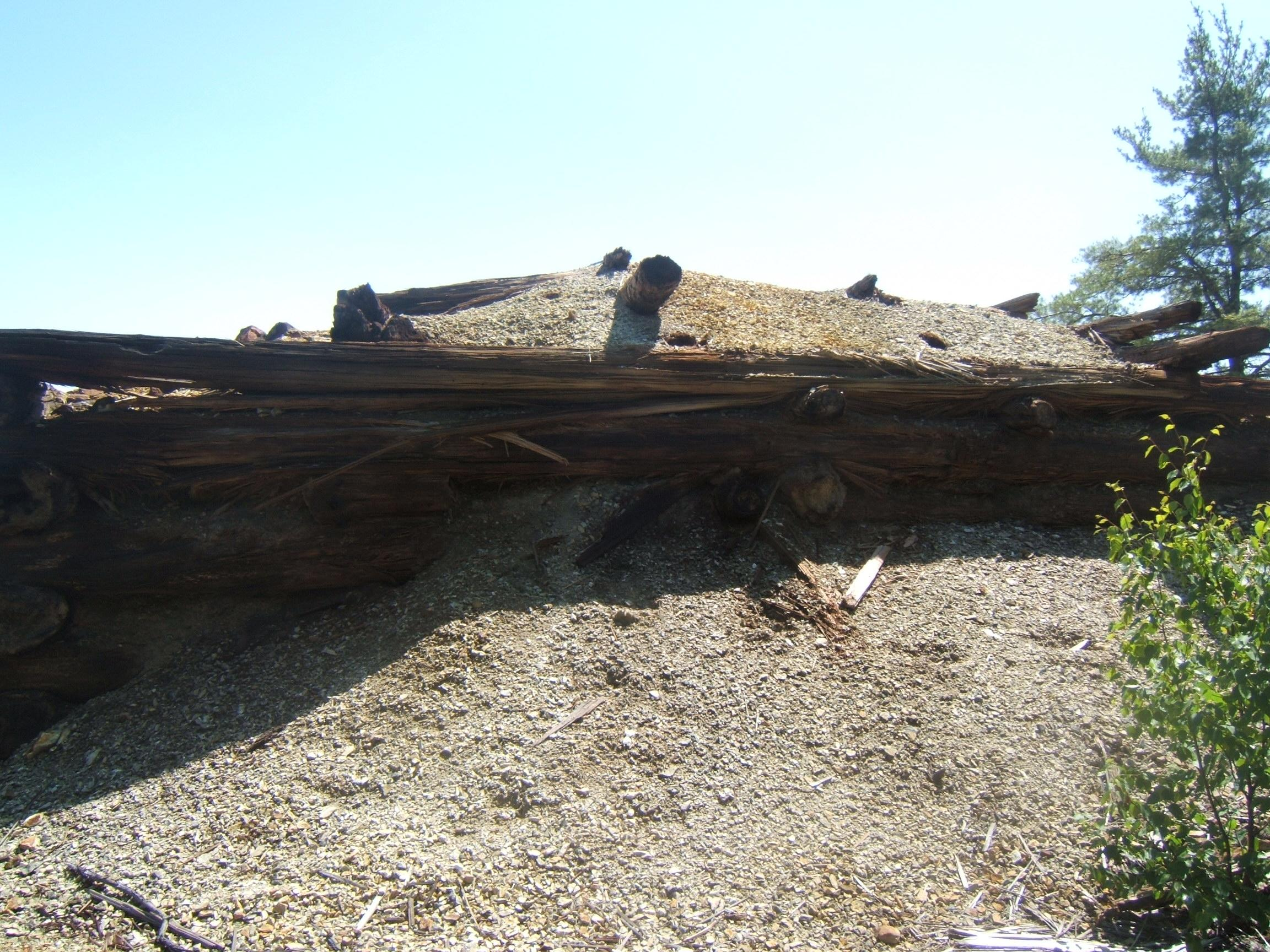 A rock-filled mine shaft at Northland Mine in Temagami, Ontario.